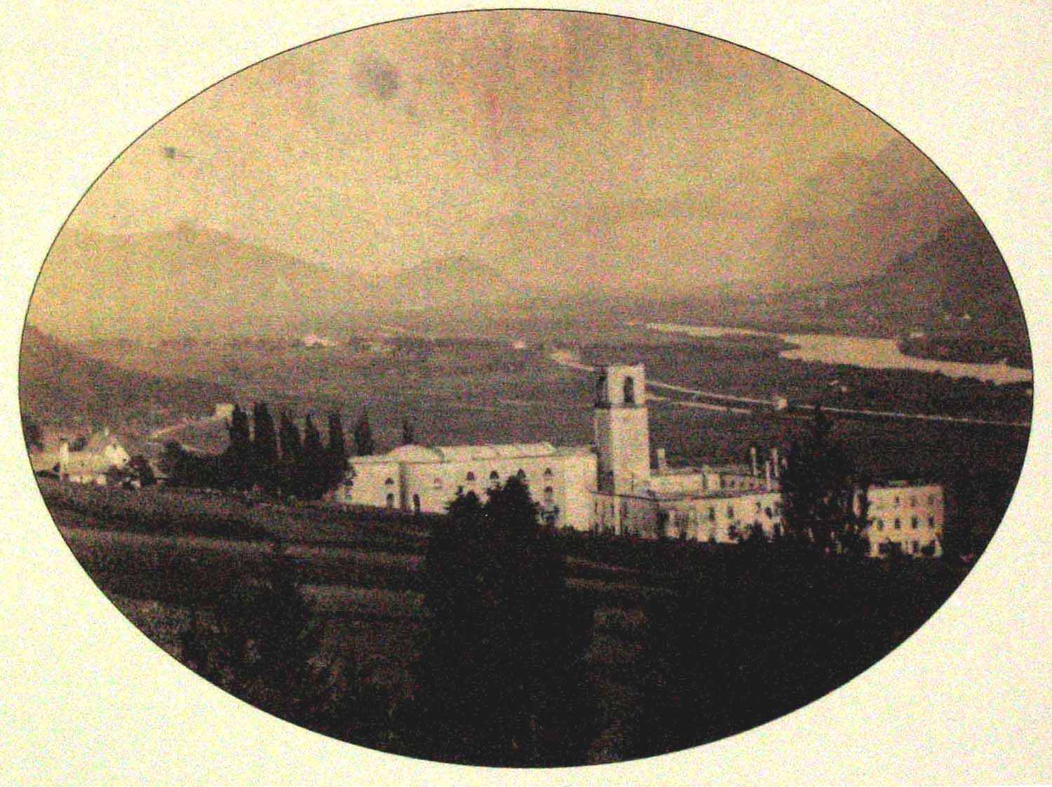 19th century photograph, before 1871